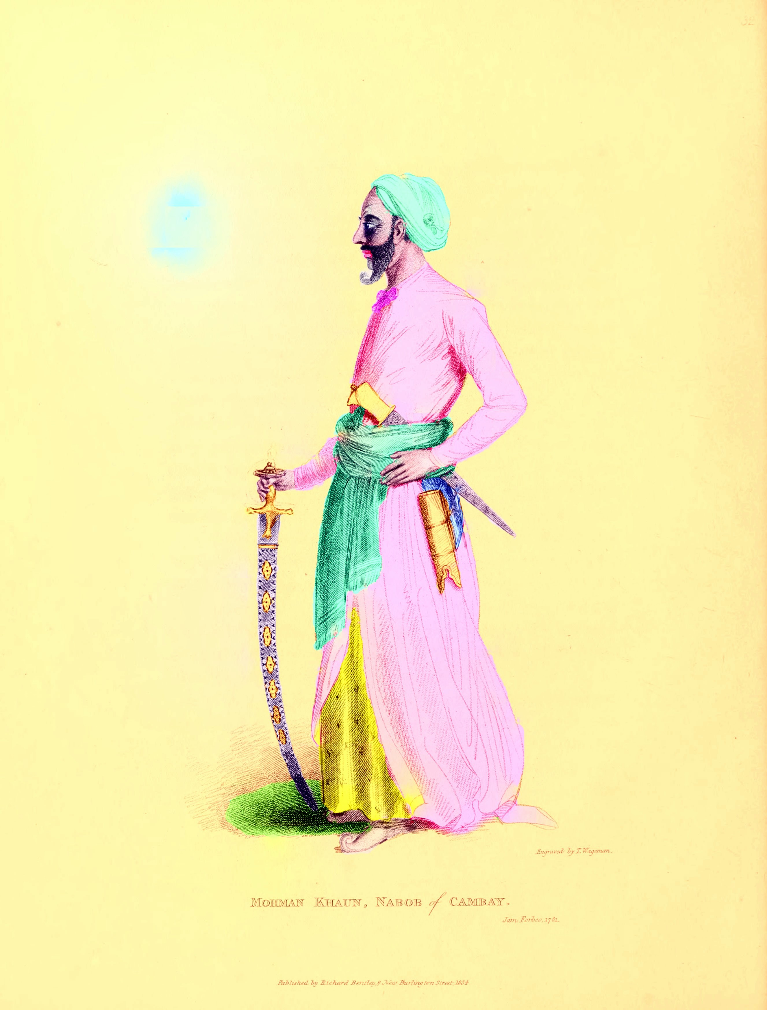 Oriental memoirs : selected and abridged from a series of familiar letters written during seventeen years residence in India : including observations on parts of Africa and South America, and a narrative of occurrences in four India voyages : illustrated by engravings from original drawings